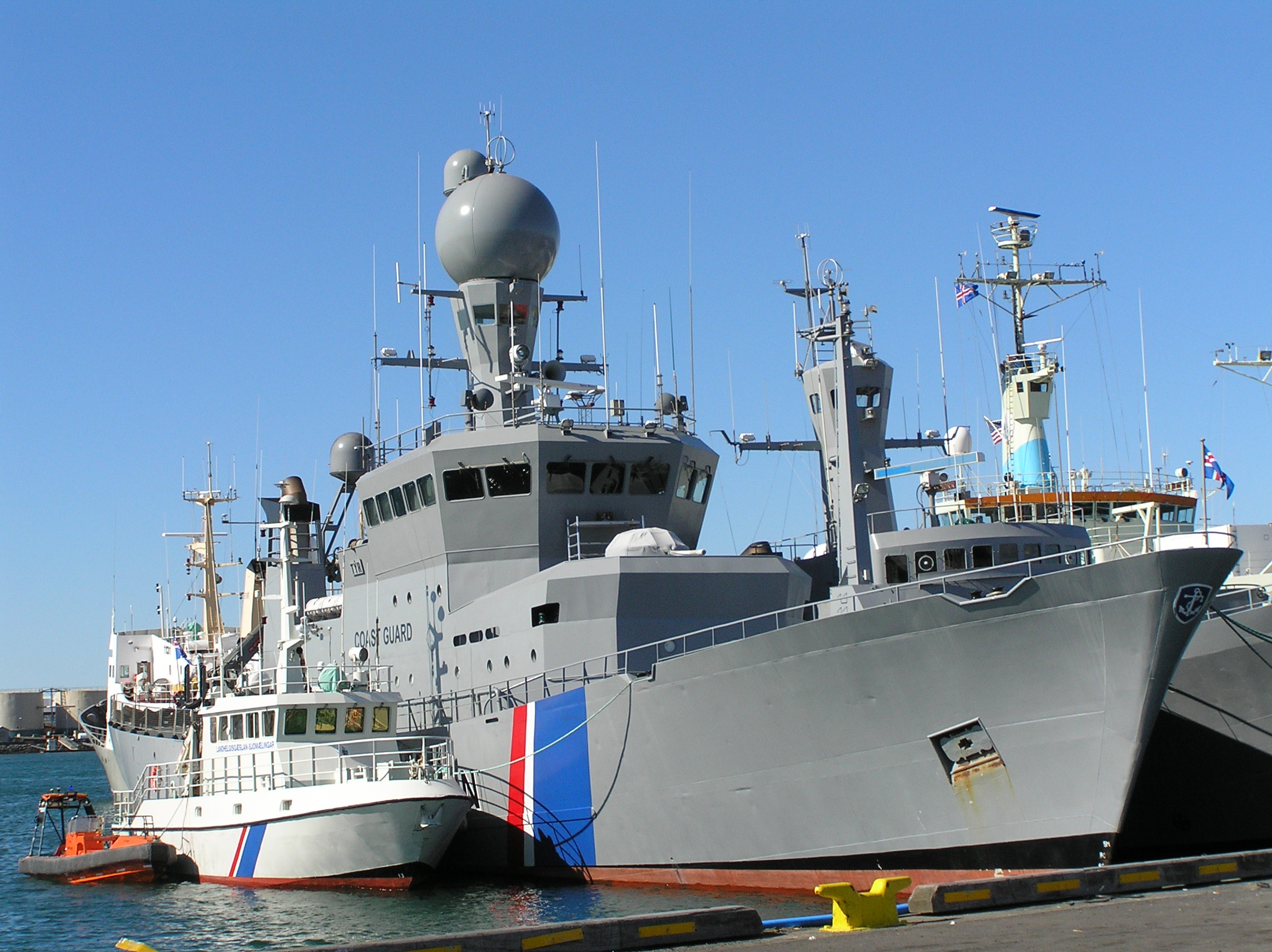 Icelandic Coast Guard vessels. From the right, V/s Óðinn, V/s Týr, M/s Baldur and an inspection boat from V/s Týr. Author: Kjallakr